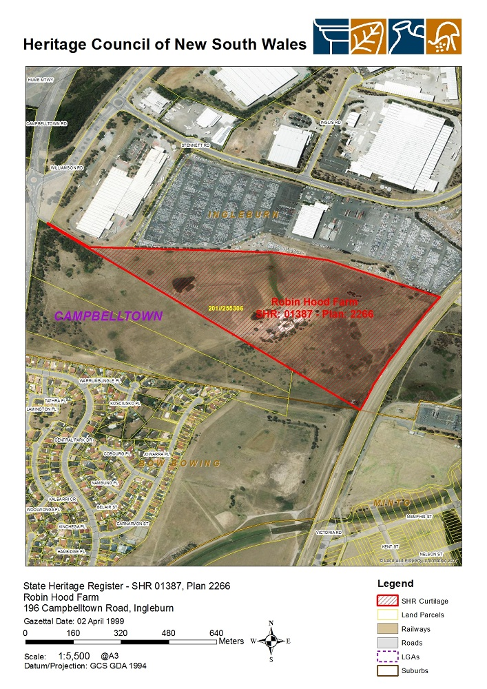 Robin Hood Farm: SHR Plan 2266